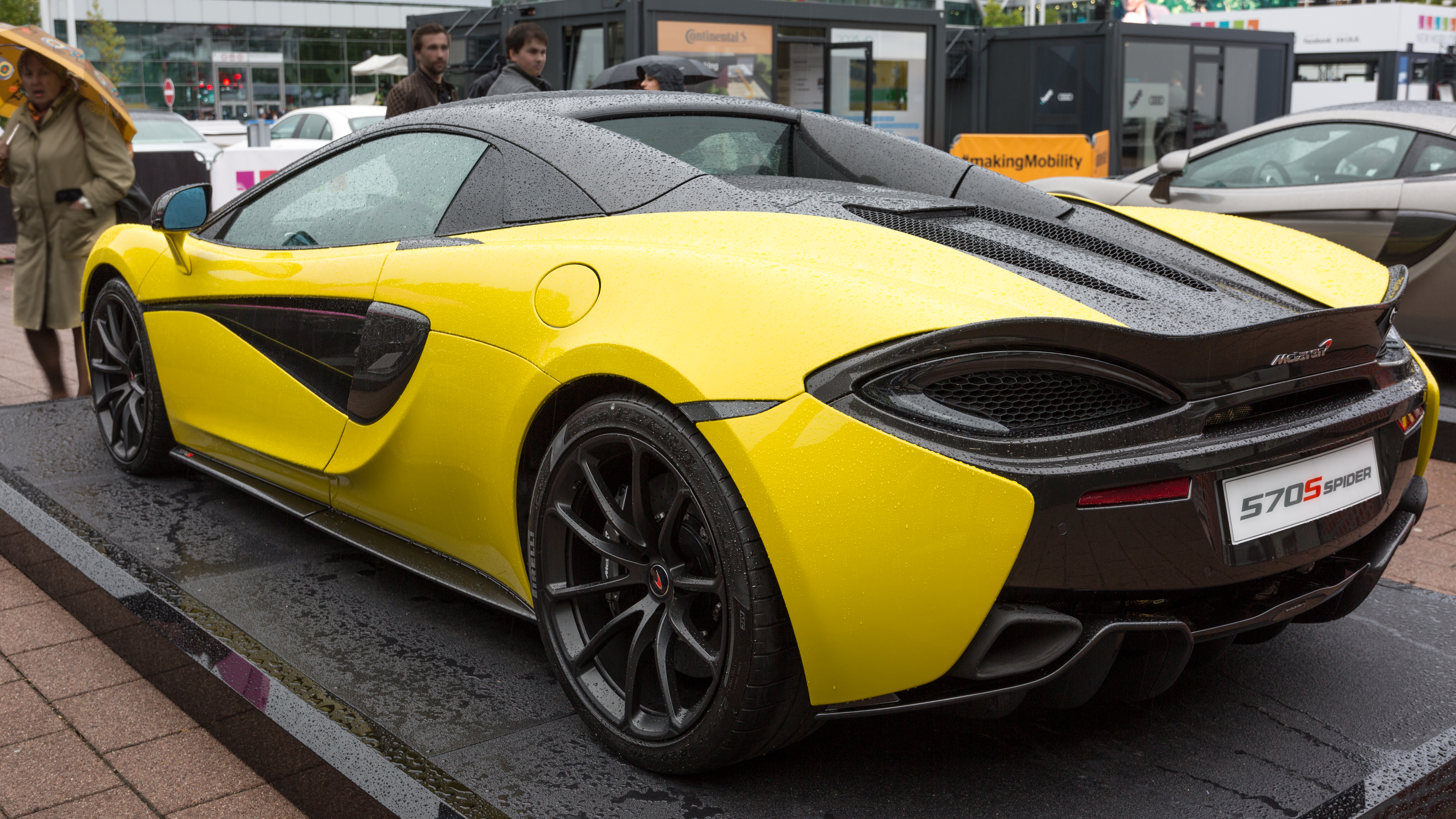 McLaren 570S, IAA 2017